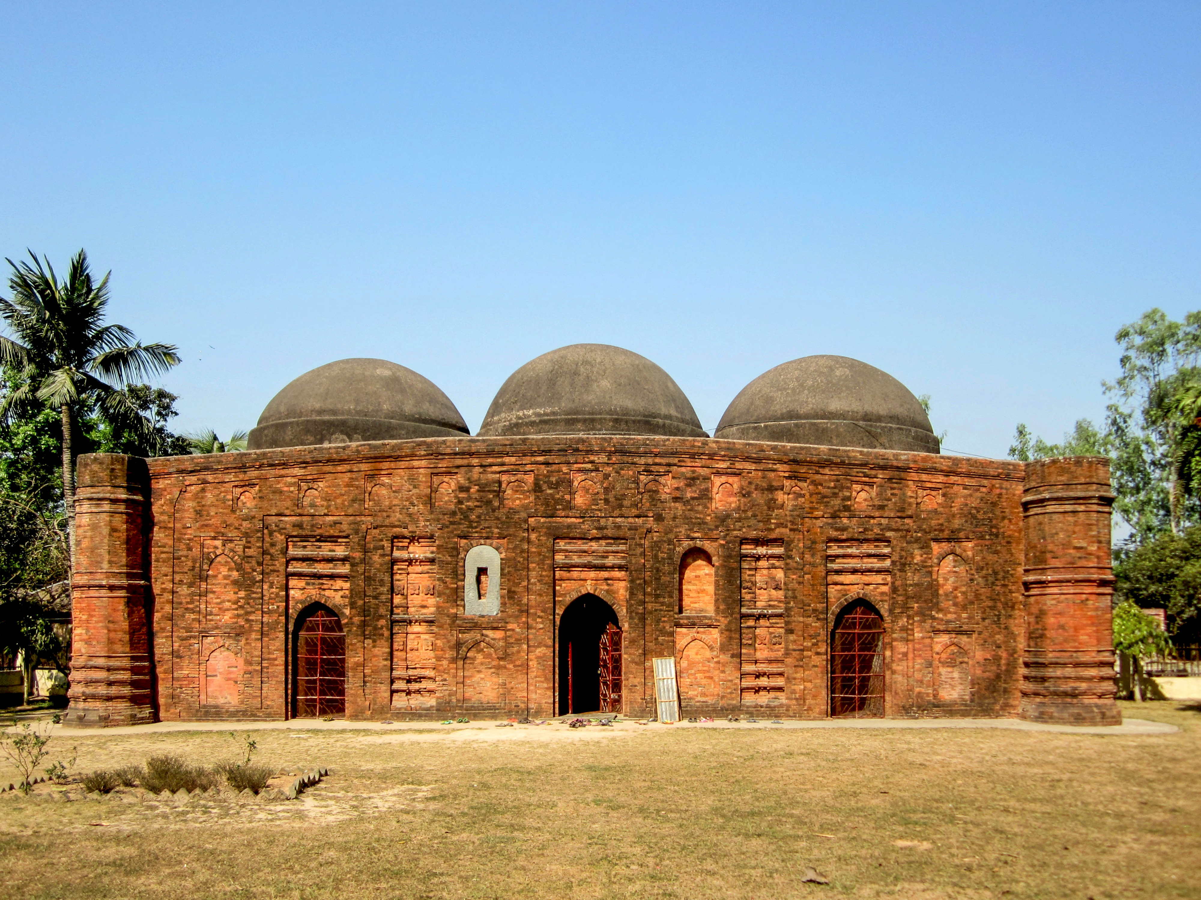 According to the Mughal architecture, their mosques consist of only a prayer hall, which is now single-aisled with three or five bays. The exterior surfaces are plastered and paneled, the cornices are straight, and the buildings look less ponderous than Sultanate ones because of the higher domes.